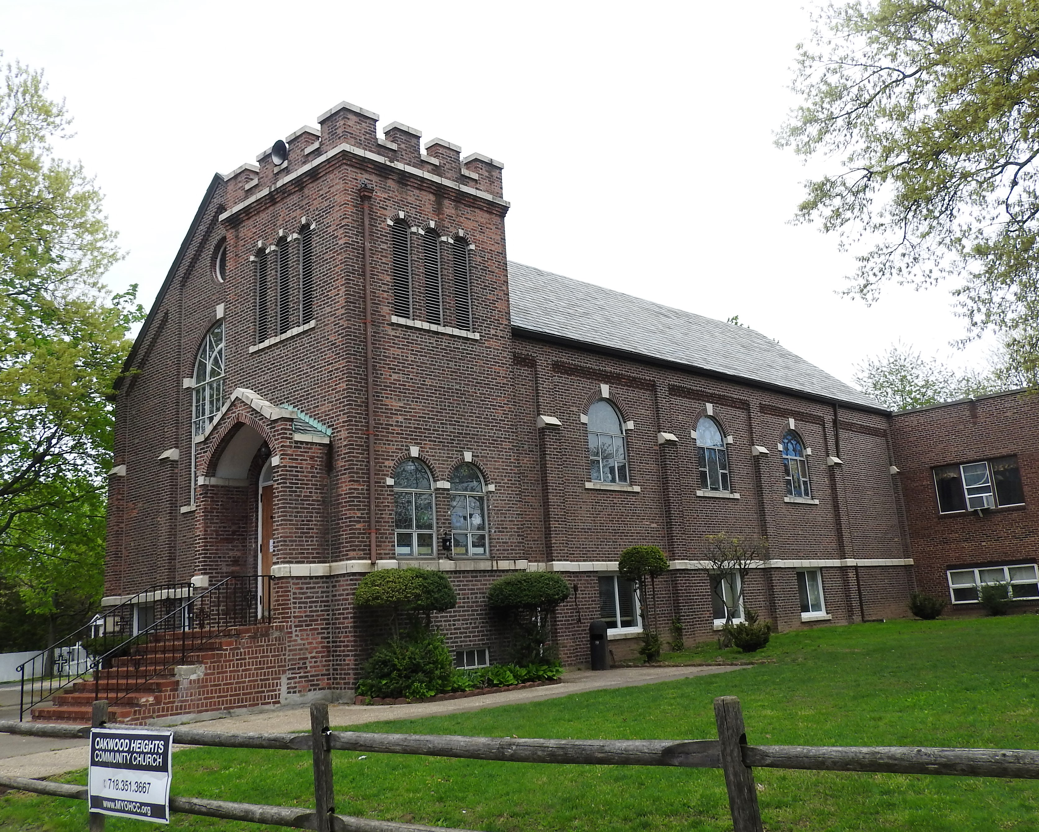 On a cloudy midday